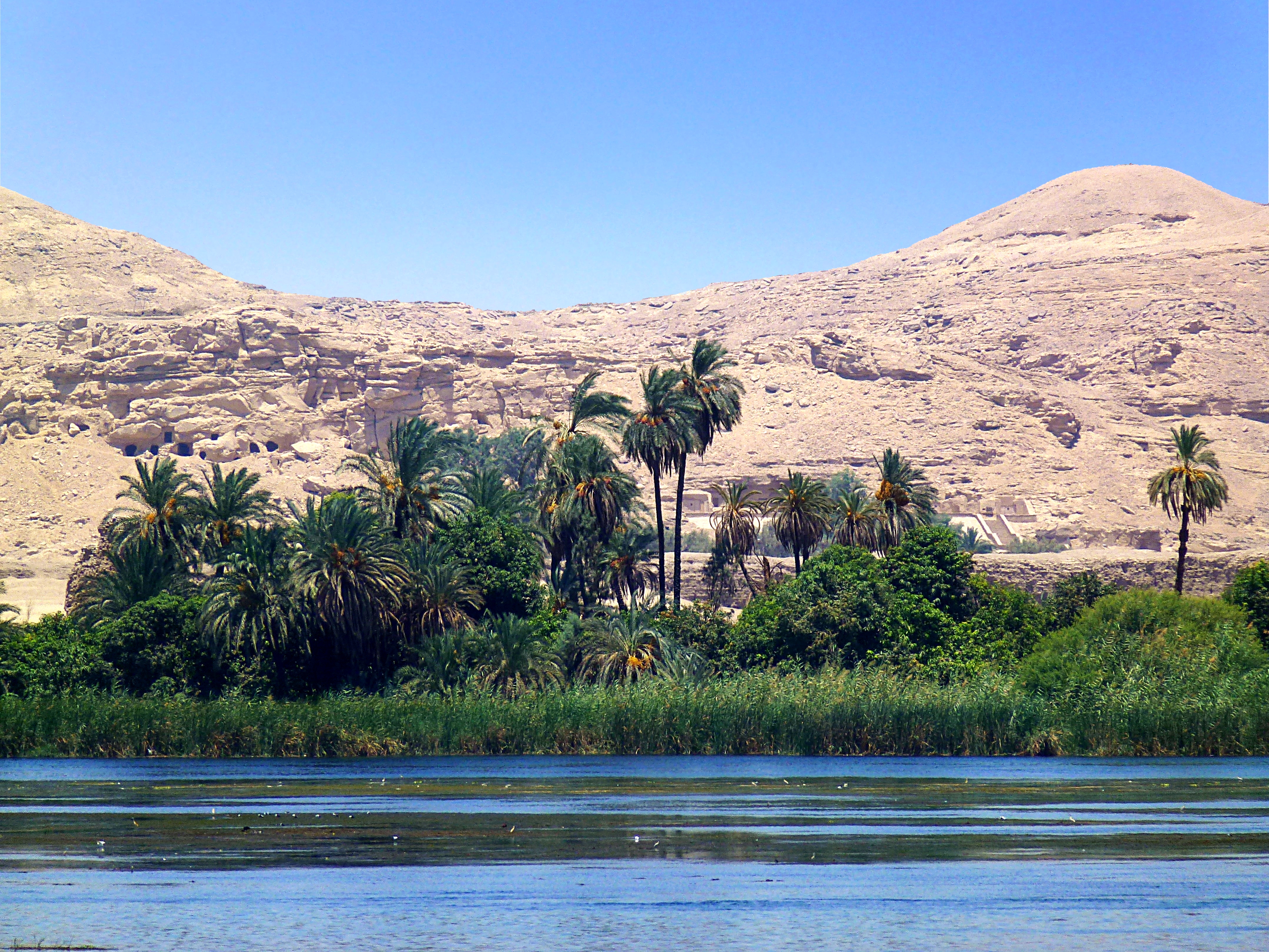 El Kab - Necheb The city walls of mud bricks with the rock tombs in the background From the Nile